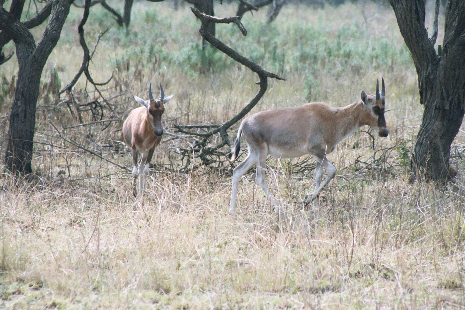 South-Africa, 2003.